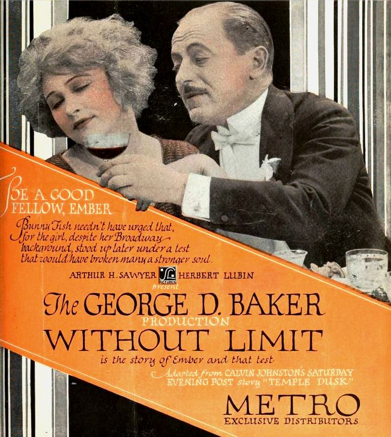 Advertisement for the American drama film Without Limit (1921) with Anna Q. Nilsson and Robert Schable, on the cover of the February 20, 1921 Film Daily.